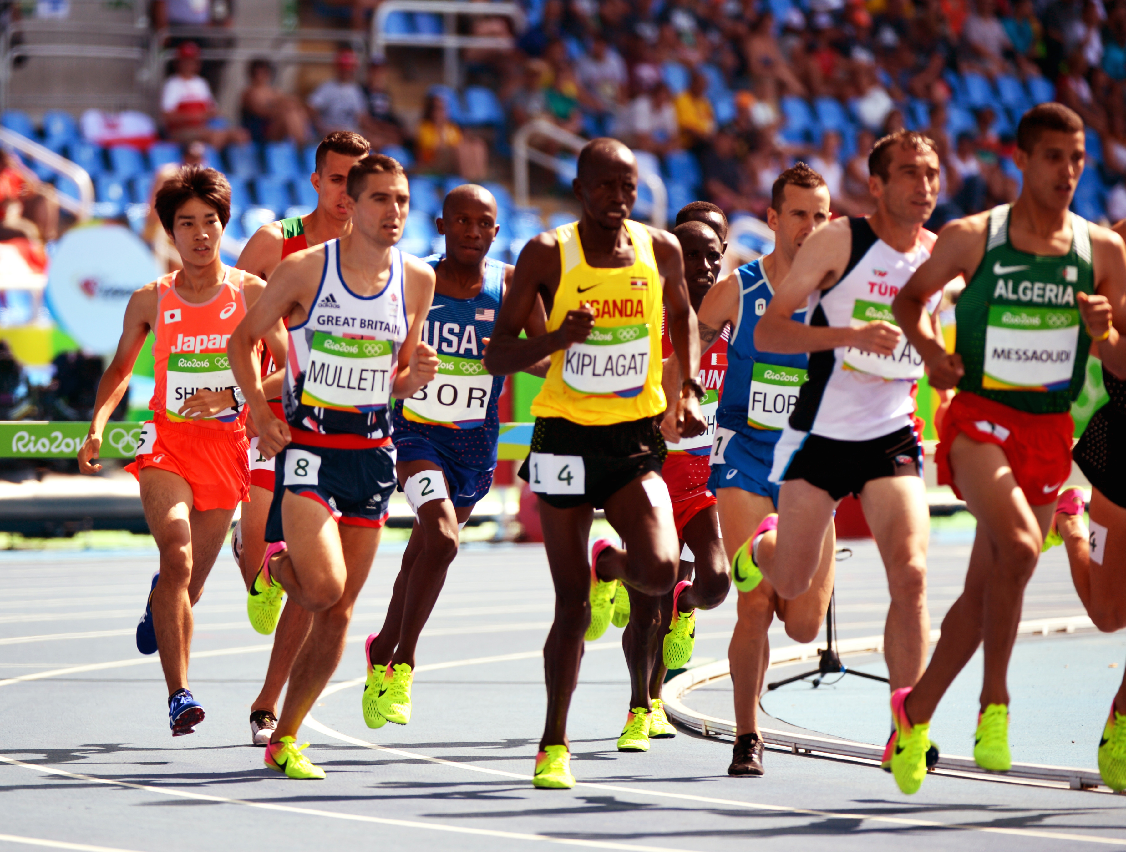 Sgt. Hillary Bor (fourth from left wearing No. 2) of the U.S. Army World Class Athlete Program wins the first of three qualifying heats in the men's 3,000-meter steeplechase with a time of 8 minutes, 25.01 seconds on Aug. 15 at the 2016 Rio Olympic Games in Rio de Janeiro. Morocco's Souflane Elbakkali finished second in 8:25.17, followed by Ezekiel Kemboi (8:25.51) of Kenya. All three runners advance to the final, scheduled for Aug. 17 at 11:50 a.m. in Rio (10:50 ET).